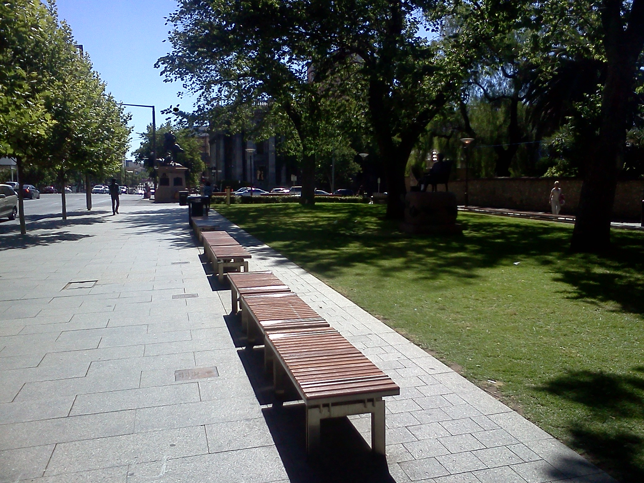 Jubilee 150 Walkway looking west from vicinity of the statue of Dame Roma Mitchell. Taken November 2013 after the completion of the remodelling of North Terrace